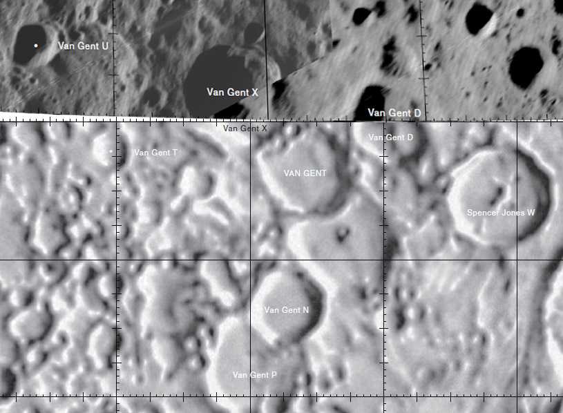 Except from the USGS Digital Atlas of the Moon.